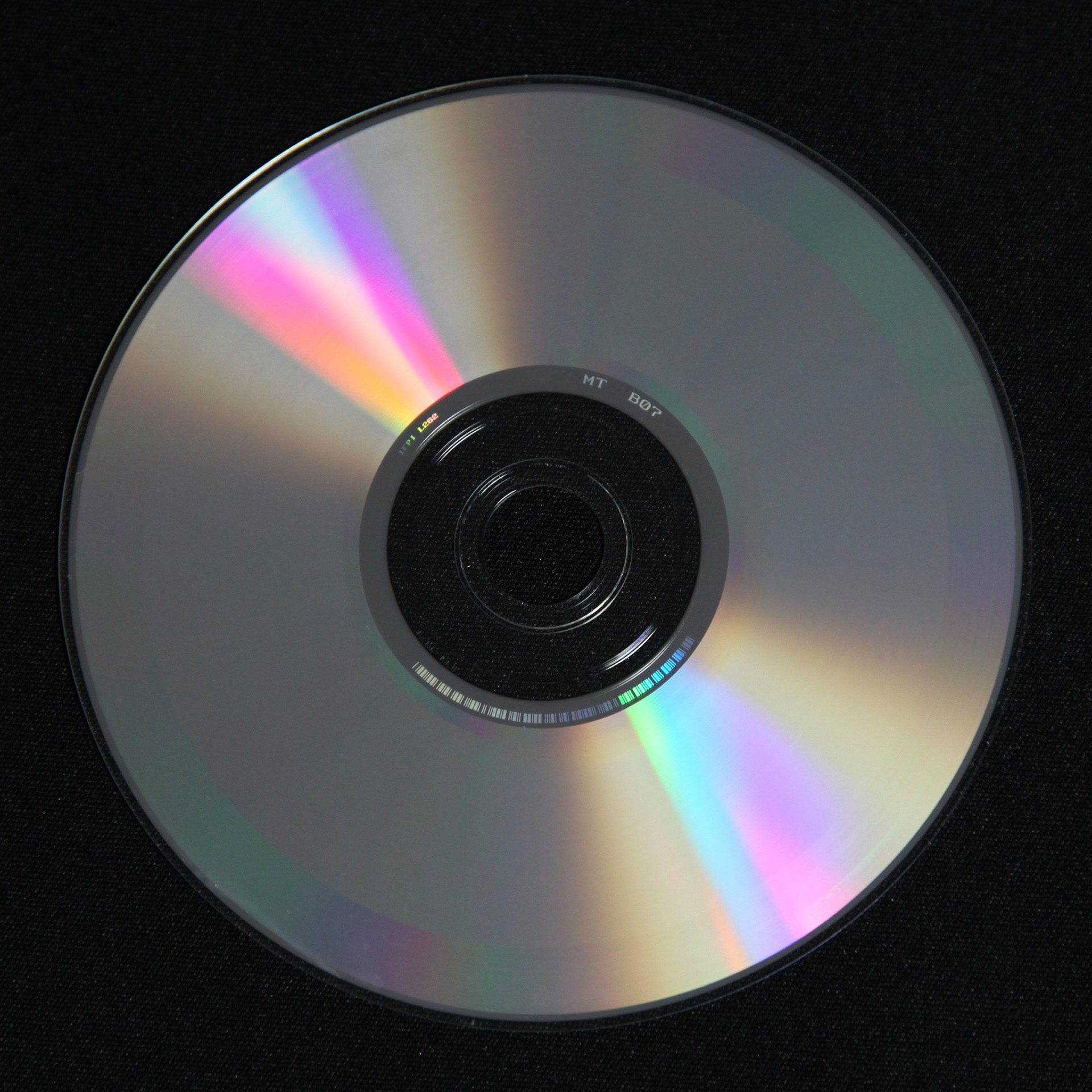 Compact Disc